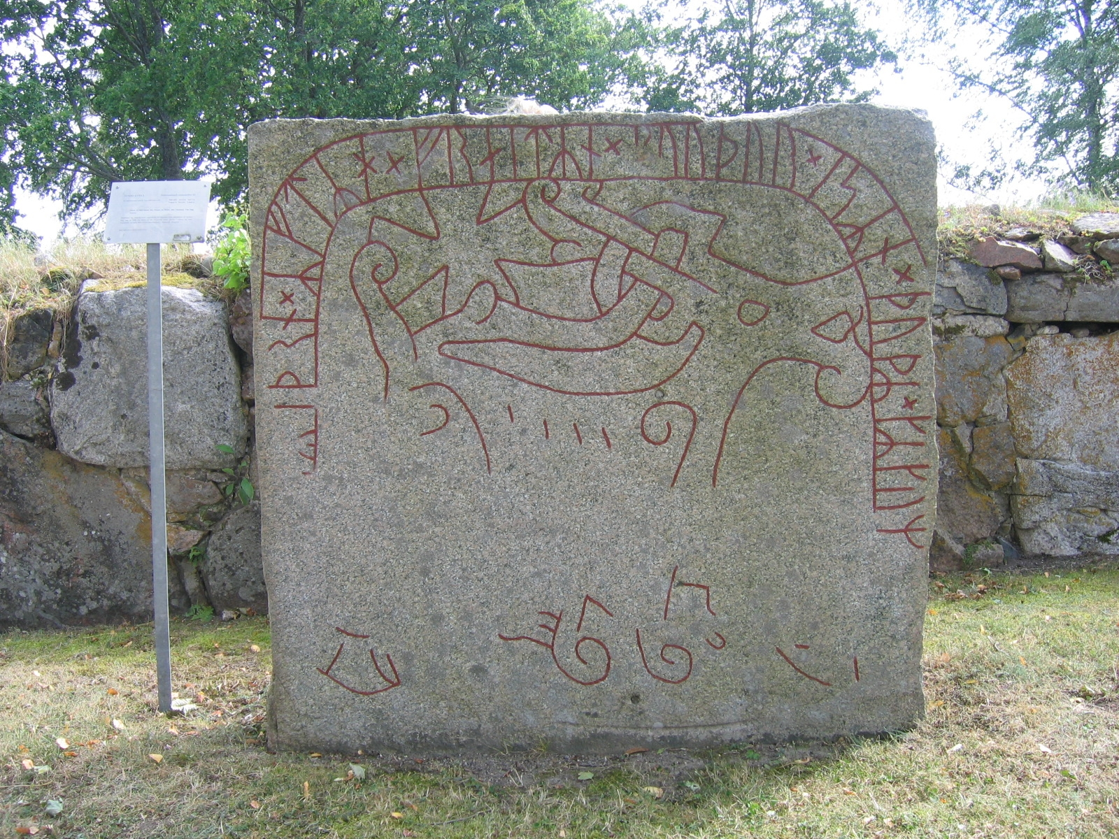 Runestone Sö 82 on the cemetery of Tumbo church in Södermanland, Sweden.